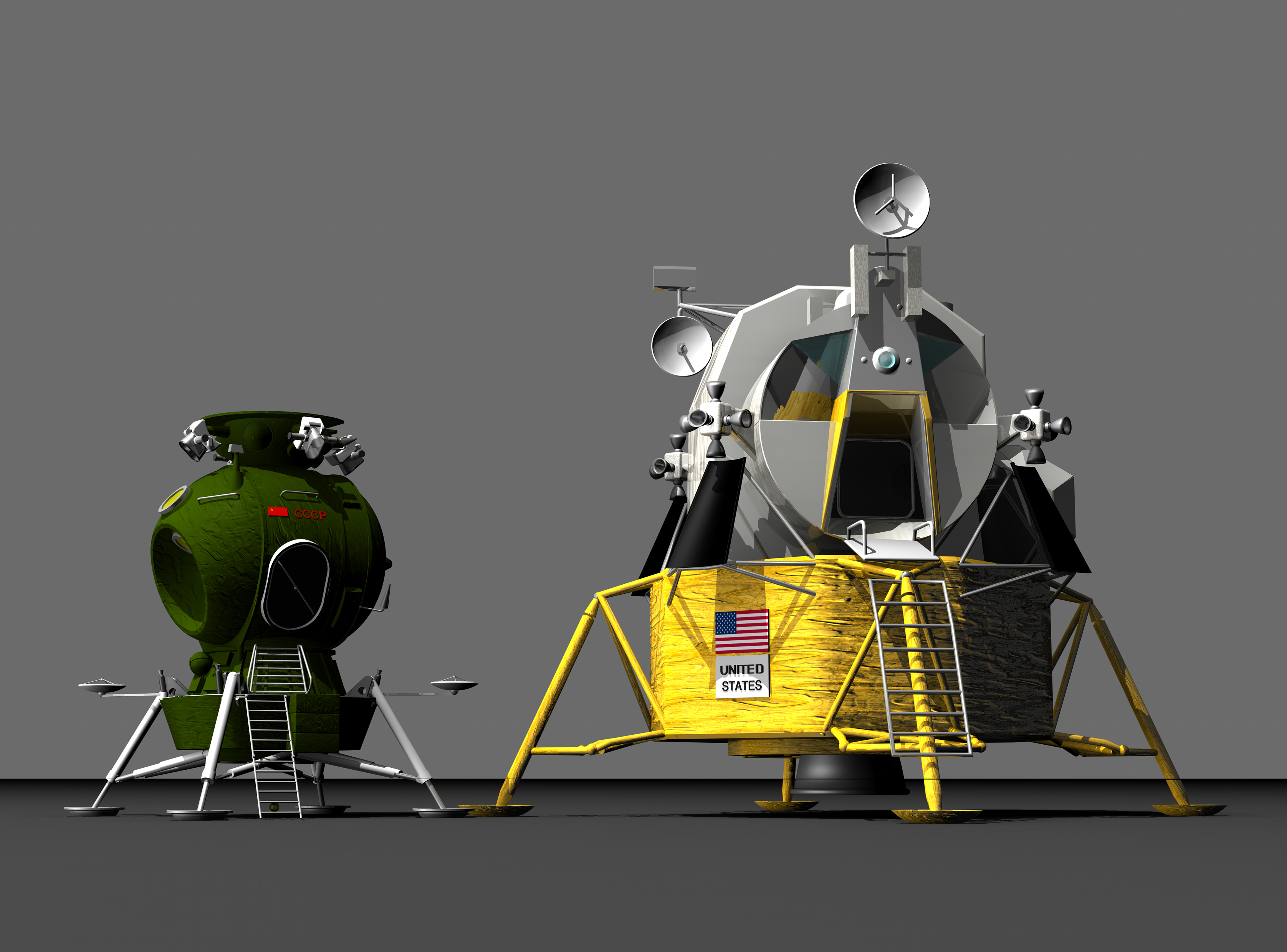 Size comparison of American and Soviet Lunar Modules